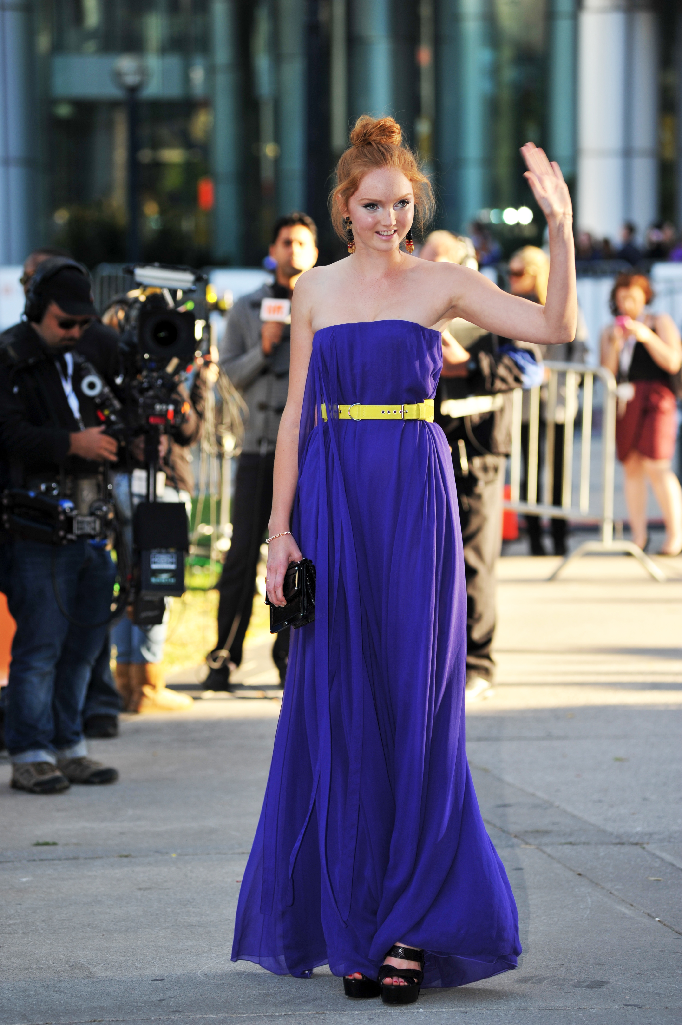 Lily Cole at the 2009 Toronto International Film Festival, for the screening of The Imaginarium of Doctor Parnassus.